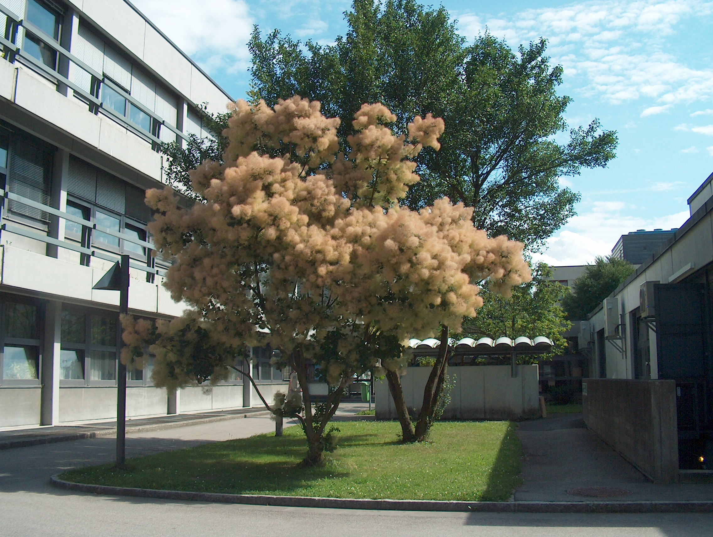 Cotinus coggygria, Smoketree - JKU Linz, Austria